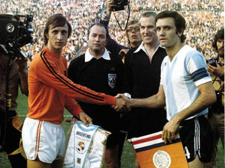 Johan Cruyff and Roberto Perfumo, captains of Netherlands and Argentina respectively, greeting before the match in the 1974 FIFA World Cup.